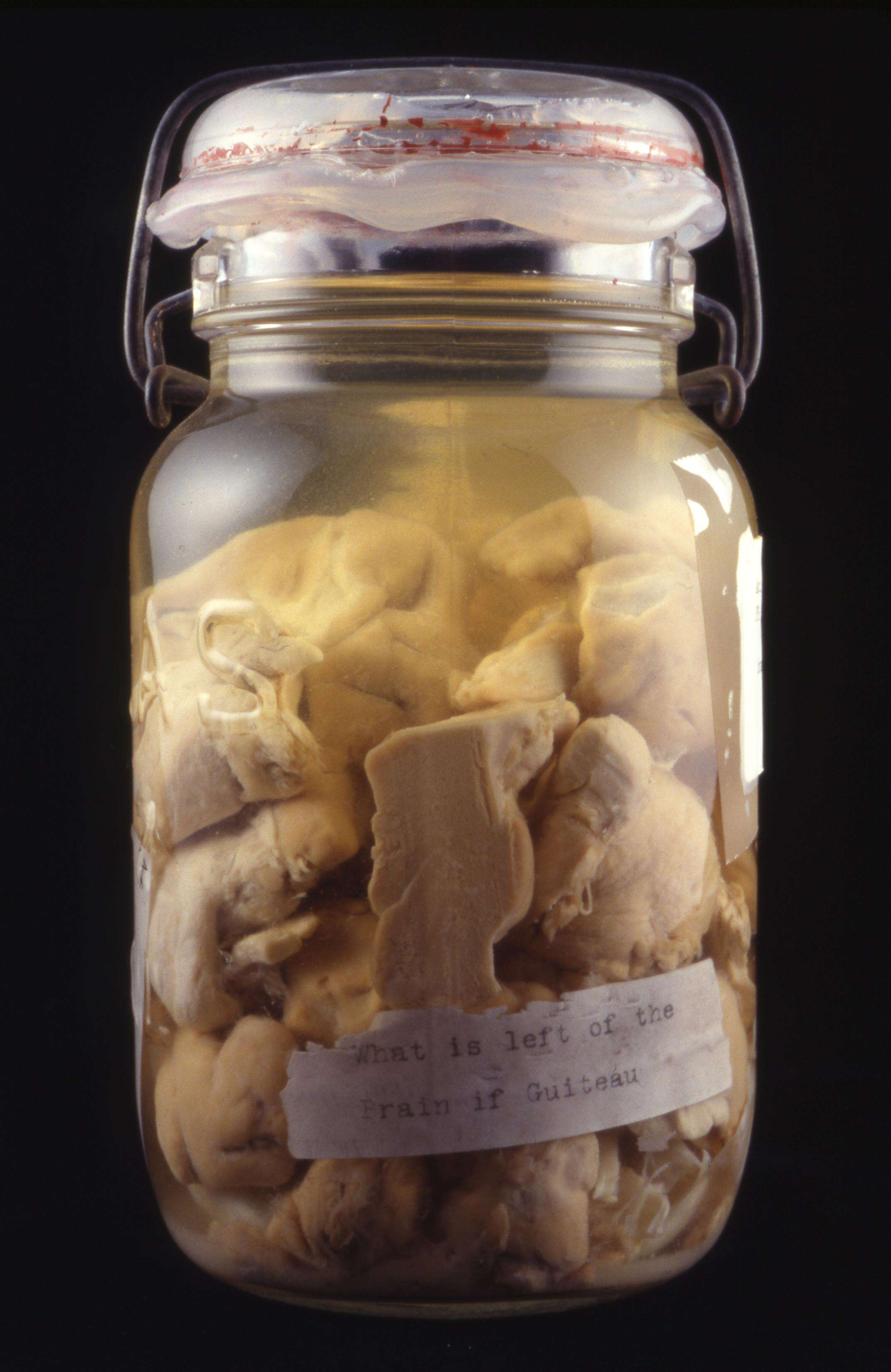 ACC 0021876 Portions of brain of Charles J. Guiteau, Assassin of President Garfield. Date received: June 30, 1882. D.S. Lamb For related specimens see AFIP 385111: Guiteau's skeleton; For related historical information see subject file "Guiteau" on file in the Anatomical Collections. Paper; Transparency b&w 35mm; Print b&w 8X10; Print color other